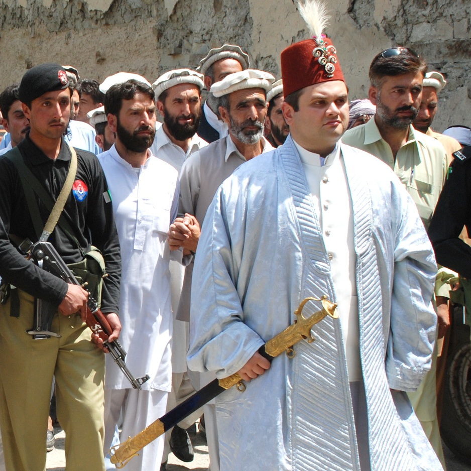 H.H. Mehtar Fateh-ul-Mulk Ali Nasir, the current head of the Royal House of Katur and the ceremonial Mehtar of Chitral.